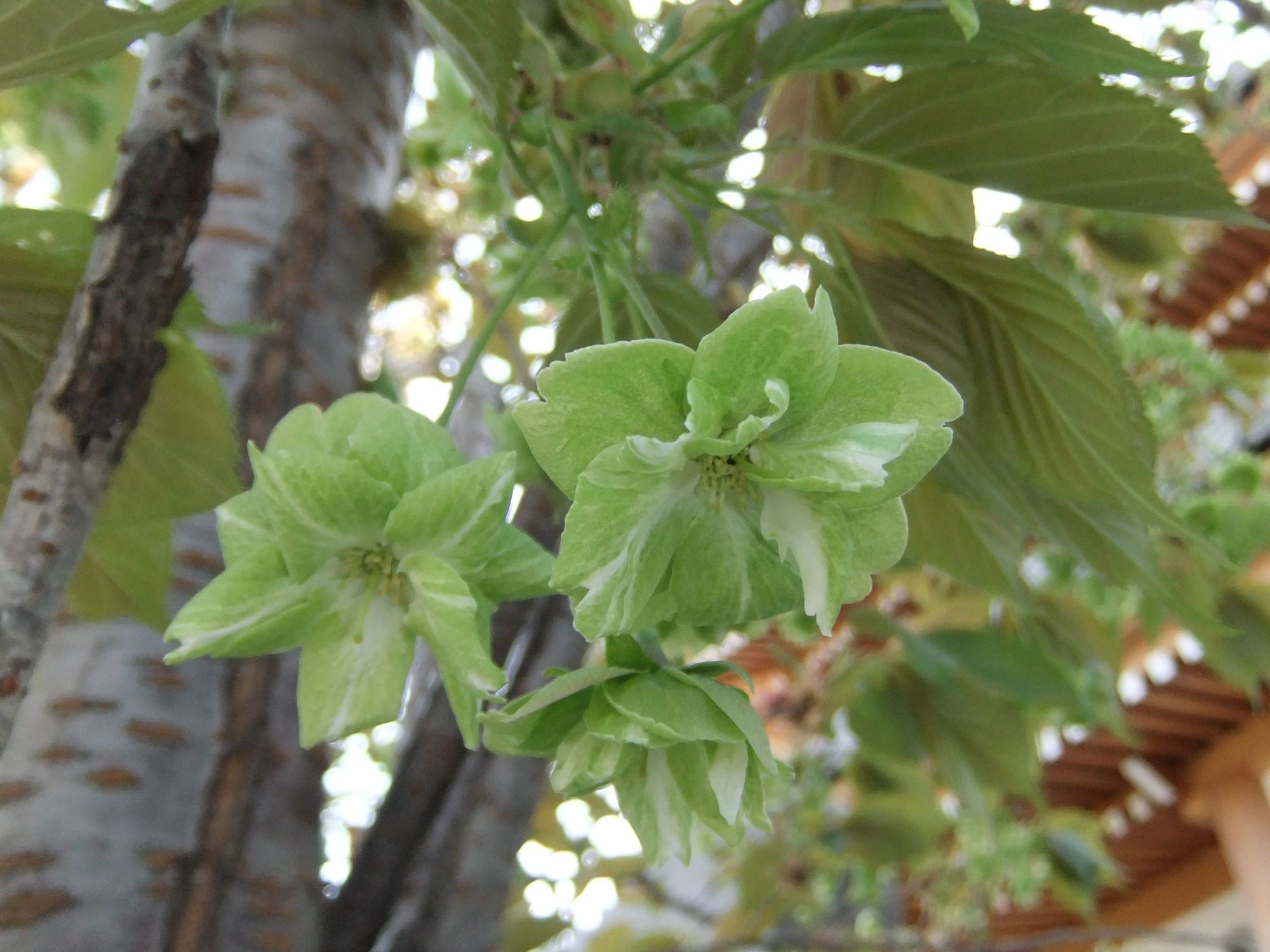 Prunus lannesiana "Gioiko"